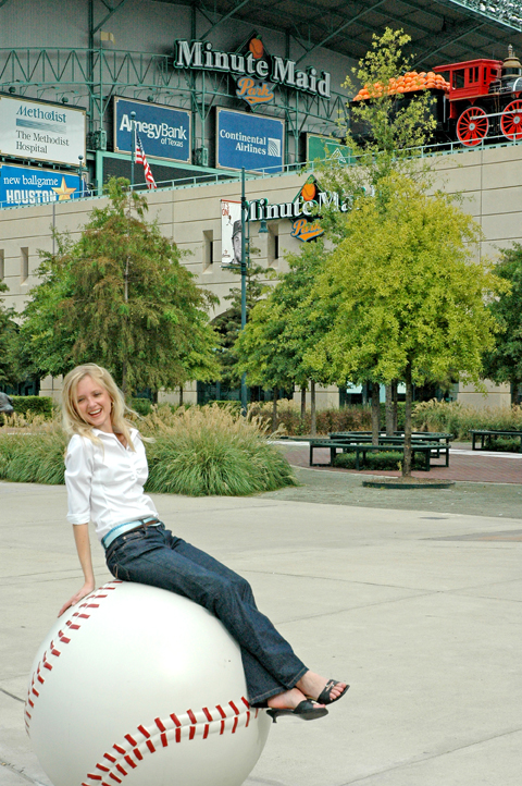 Baseball Pose - Minute Maid Park - Houston, Texas